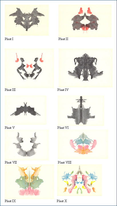 The ten original Rorschach inkblot test inkblots. Distribution of these images by psychologists to the general public is allegedly in violation of American Psychological Association regulations, but the images have passed into the public domain due to age and the APA's wishes are not legally binding, even to its own members, let alone the public at large.